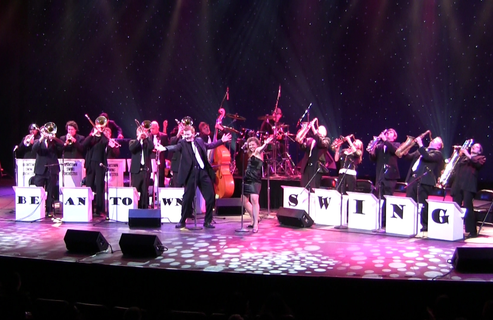 Beantown Swing Orchestra at the Fox Theatre at Foxwoods Resort Casino